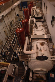 This is a photo of the Ocean Simulation Facility of the United States Navy Experimental Diving Unit